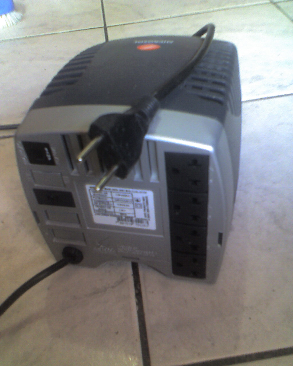 Energy stable current 600kva for ground in:220v/110v out:110v